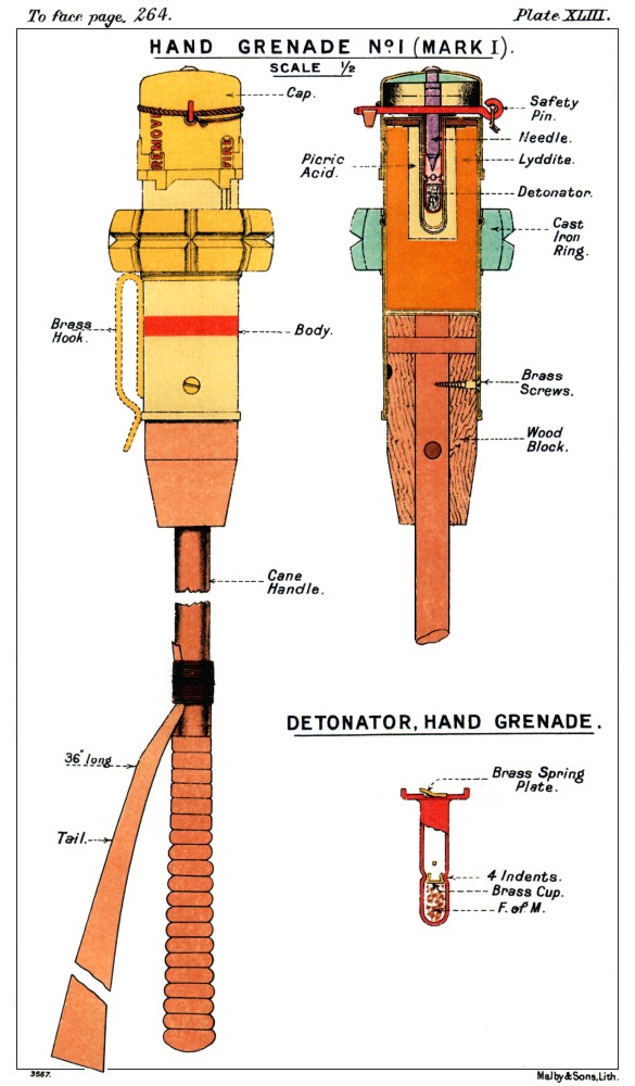 Diagram of British Hand Grenade No I Mark I. Body is made of solid drawn brass, cylindrical. Around the body is a cast-iron ring which is intended to break up on detonation of the charge. Bursting charge is 4 oz 2 drams Lyddite. The weight of the cast-iron ring causes the grenade to fall nose-first, which causes the needle in the cap to be driven into the detonator, which contains 30 grains Fulminate of Mercury, and ignite the Lyddite charge. The cap is set to position "Remove", "Travel" or "Fire". Handle is of cane approximately 16 inches long. To prepare the grenade : Turn cap to right until word "remove" is opposite arrow painted on body, and remove cap. Place detonator into recess Replace cap To throw the grenade : Unwind tail and allow to hang loose Turn cap from "travel" to "fire" position Remove safety pin Grasp grooved end of cane handle and throw grenade either over or underhand, taking care not to entangle the tail. Grenade should be thrown upwards at an angle of at least 35°. This facilitates the grenade striking the ground near vertically.